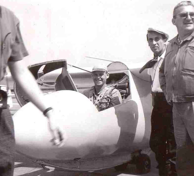 Photo of Rolf Hossinger in his Skylark 3 during SWC 1960 in Köln. At the right Jorge Menusi, Argentinean team captain and "Don Enrique" Argentinean flight legend.